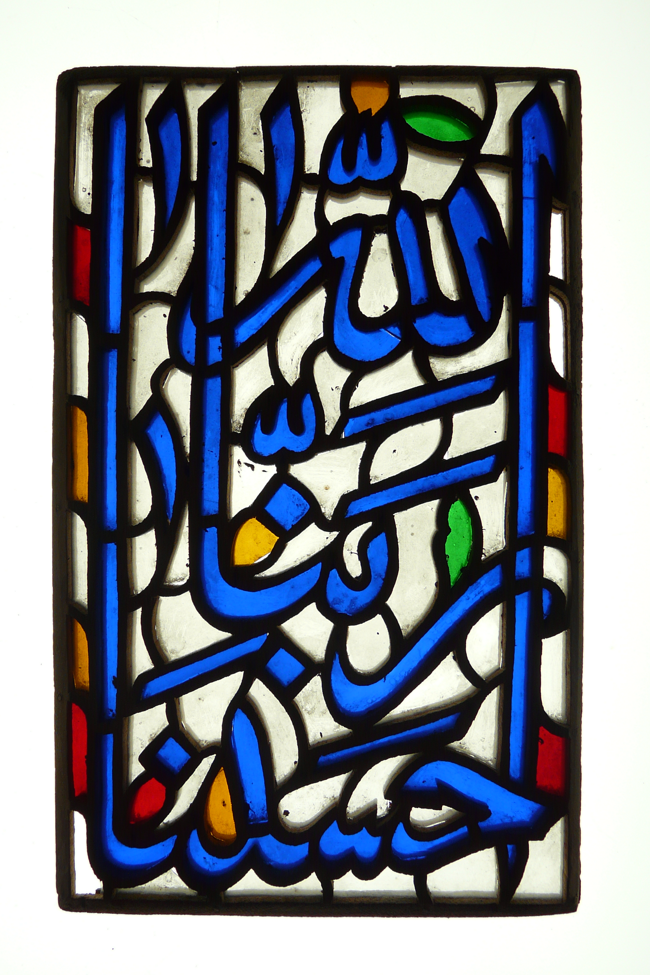 Stained glass window from the ancient Persia. The pieces of glass are connected with carved wood. Size: 25cm x 15 cm x 1 cm